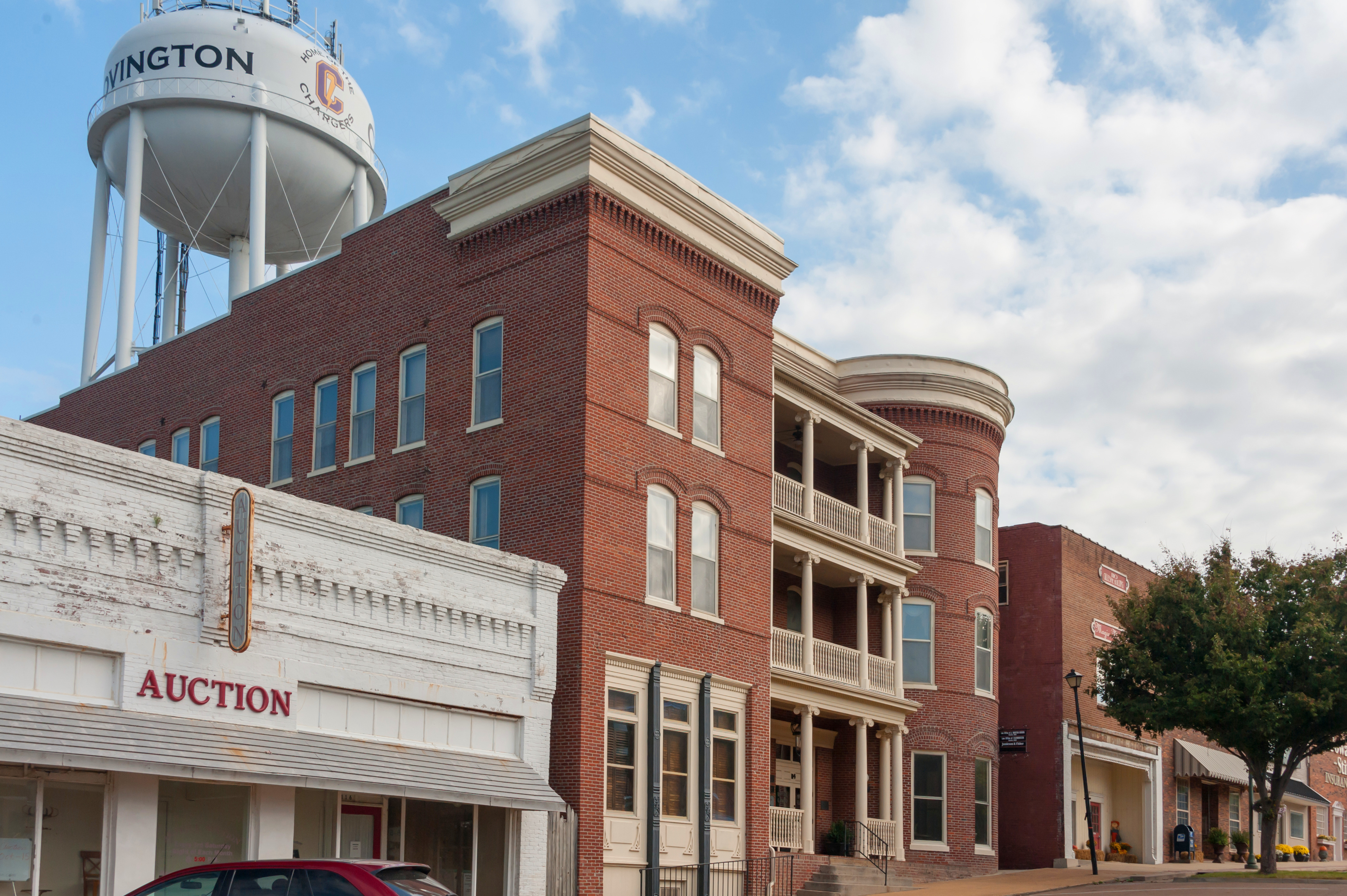 West Liberty Avenue in Covington, Tennessee.